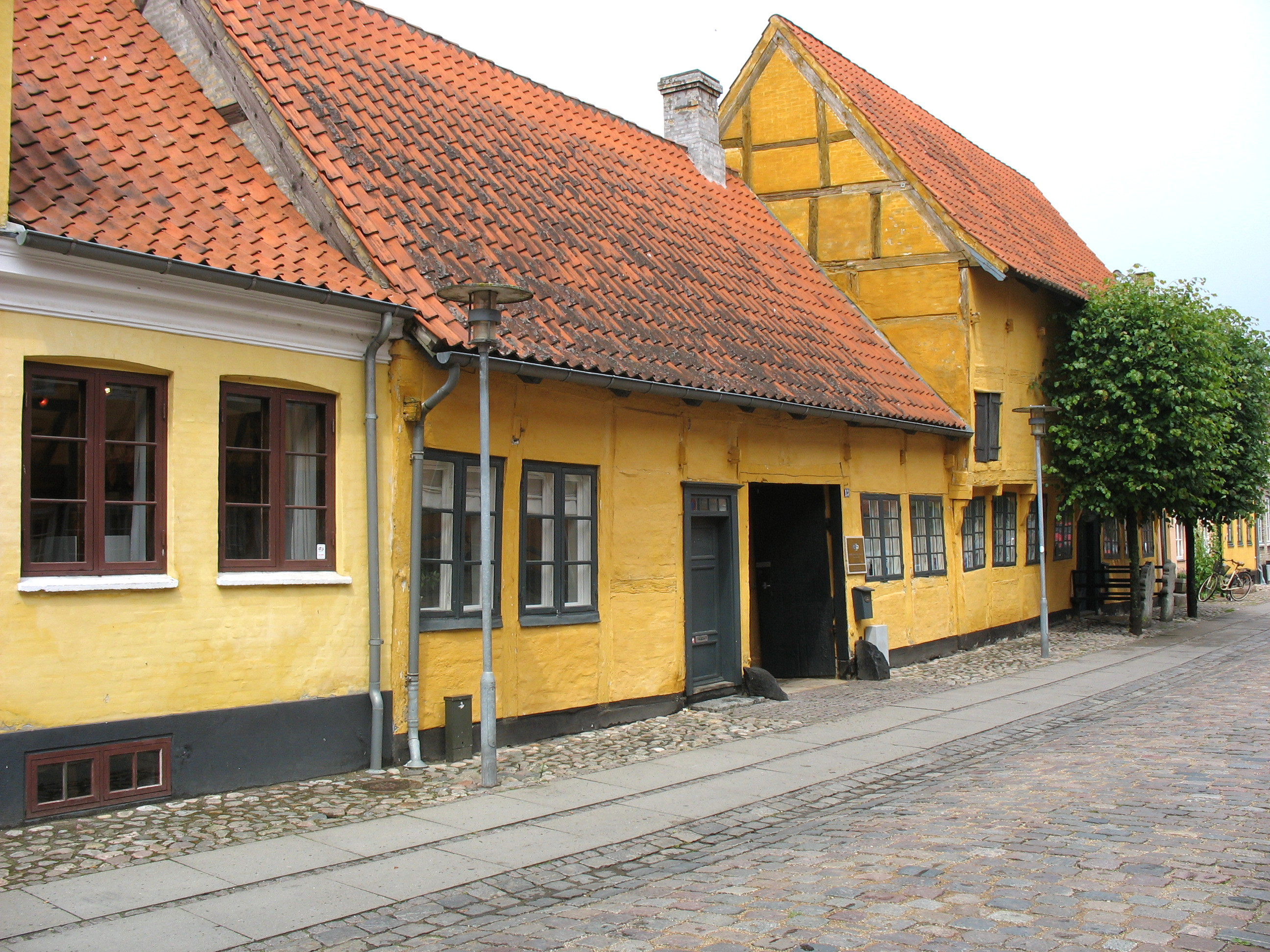 Old houses in the street "Kirkestræde" in the town "Køge". The town is located in Middle Zealand in east Denmark.